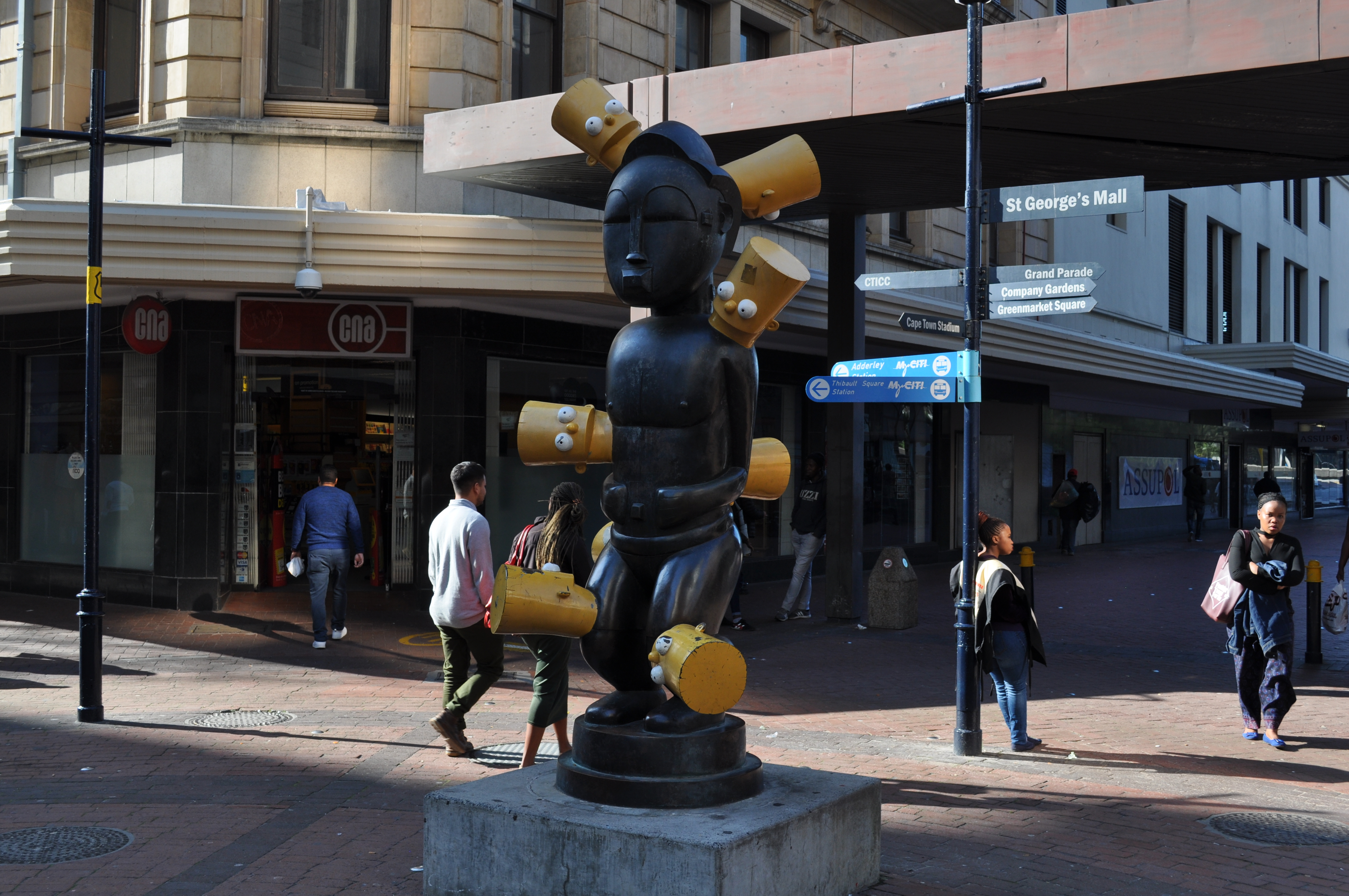 Sculpture "Africa" by Brett Murray (2000)